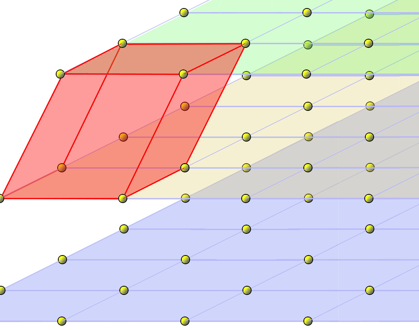 Minkowski's theorem's illustration, about geometrical arithmetics.